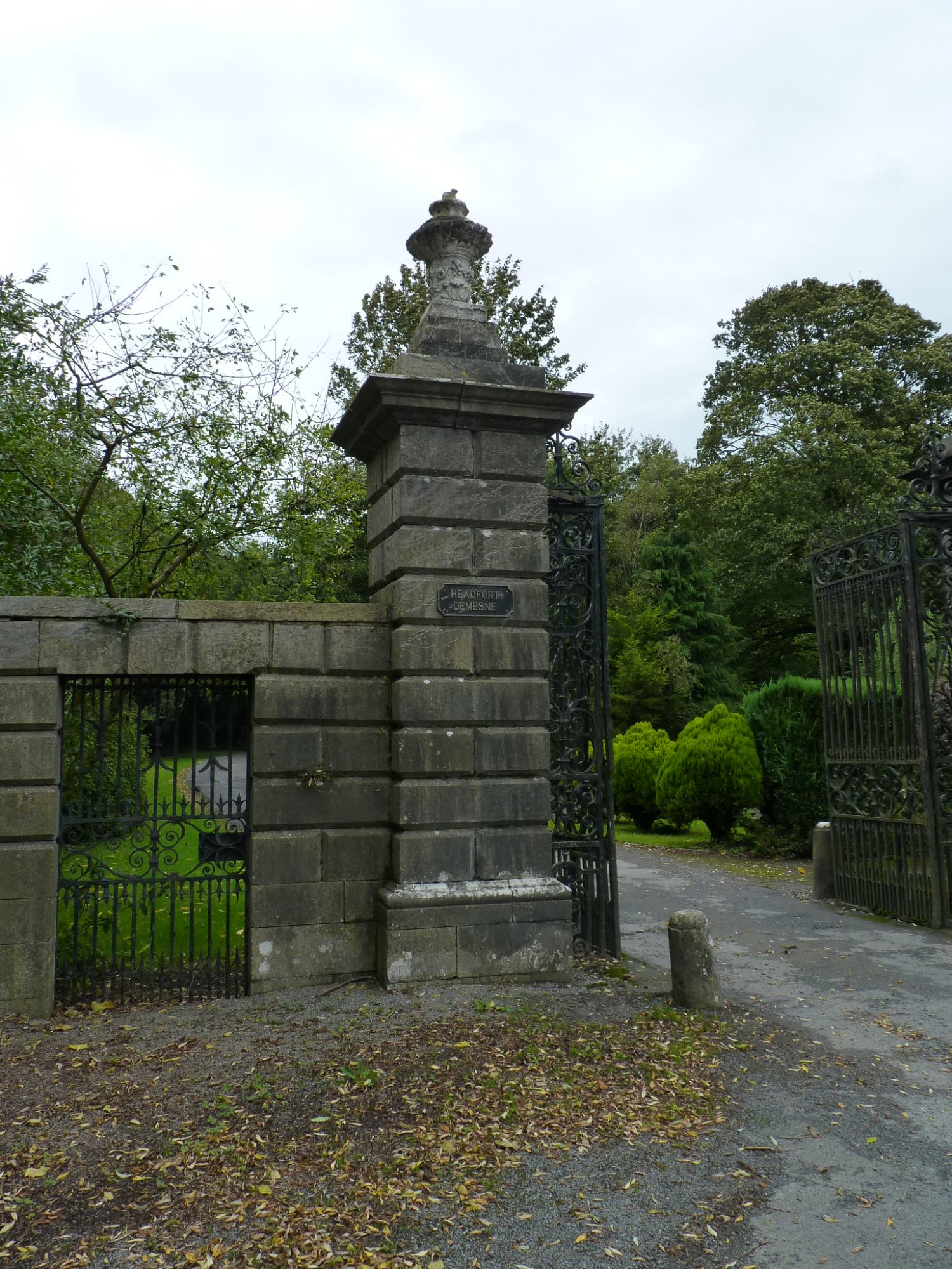 Entrance gate